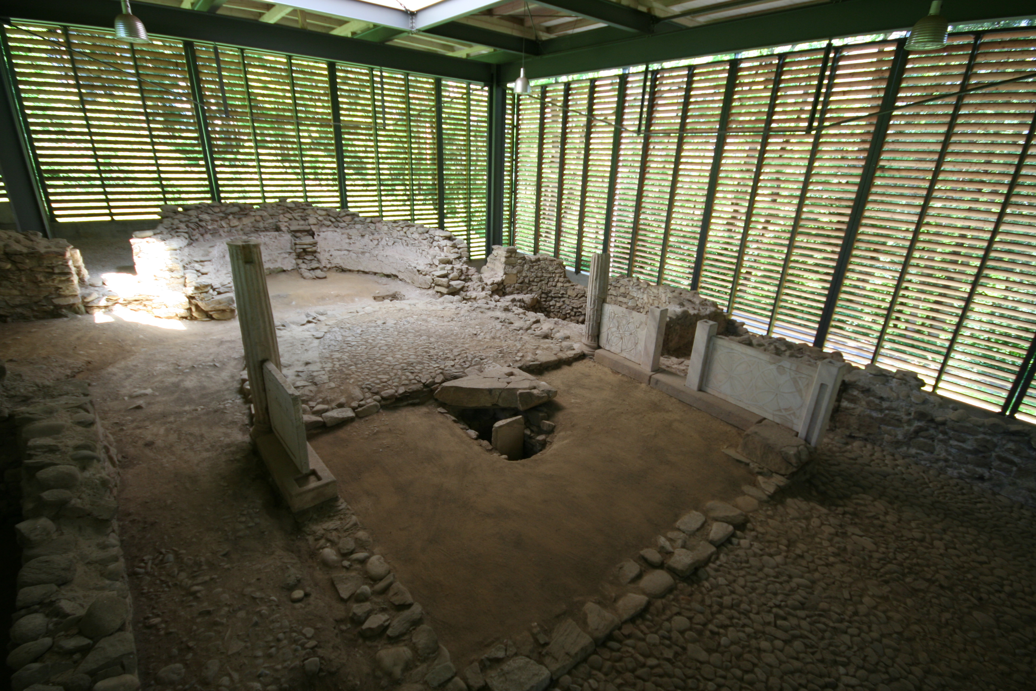 Ruins of the episcopal church in Teurnia, Carinthia